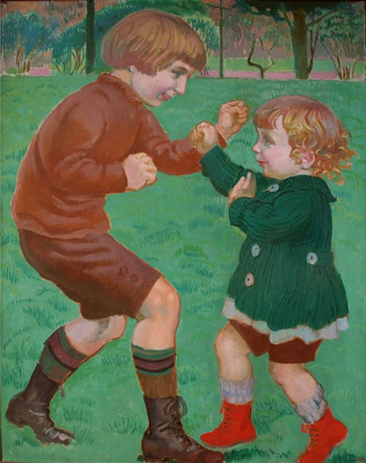 Boxing